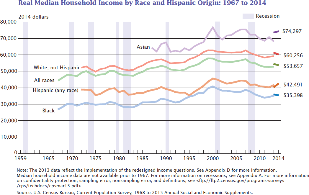 US real median household income 1967 - 2014